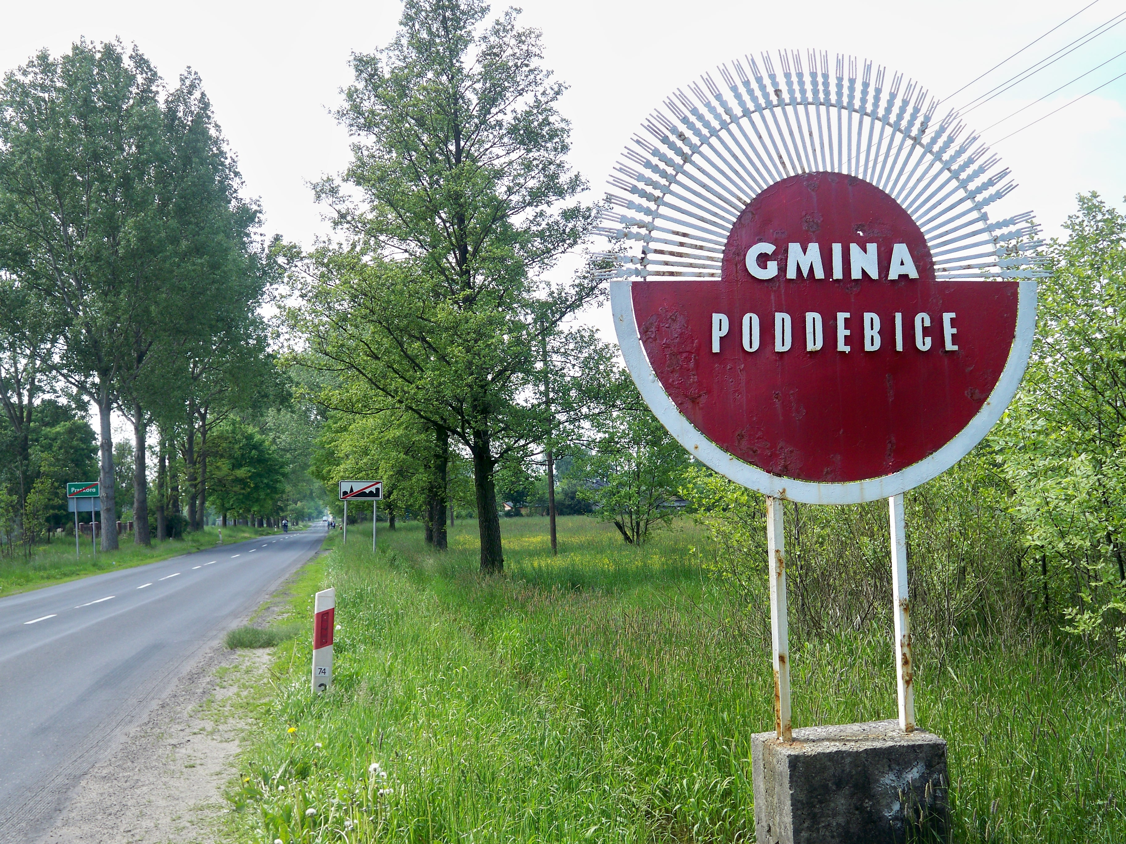 My photo